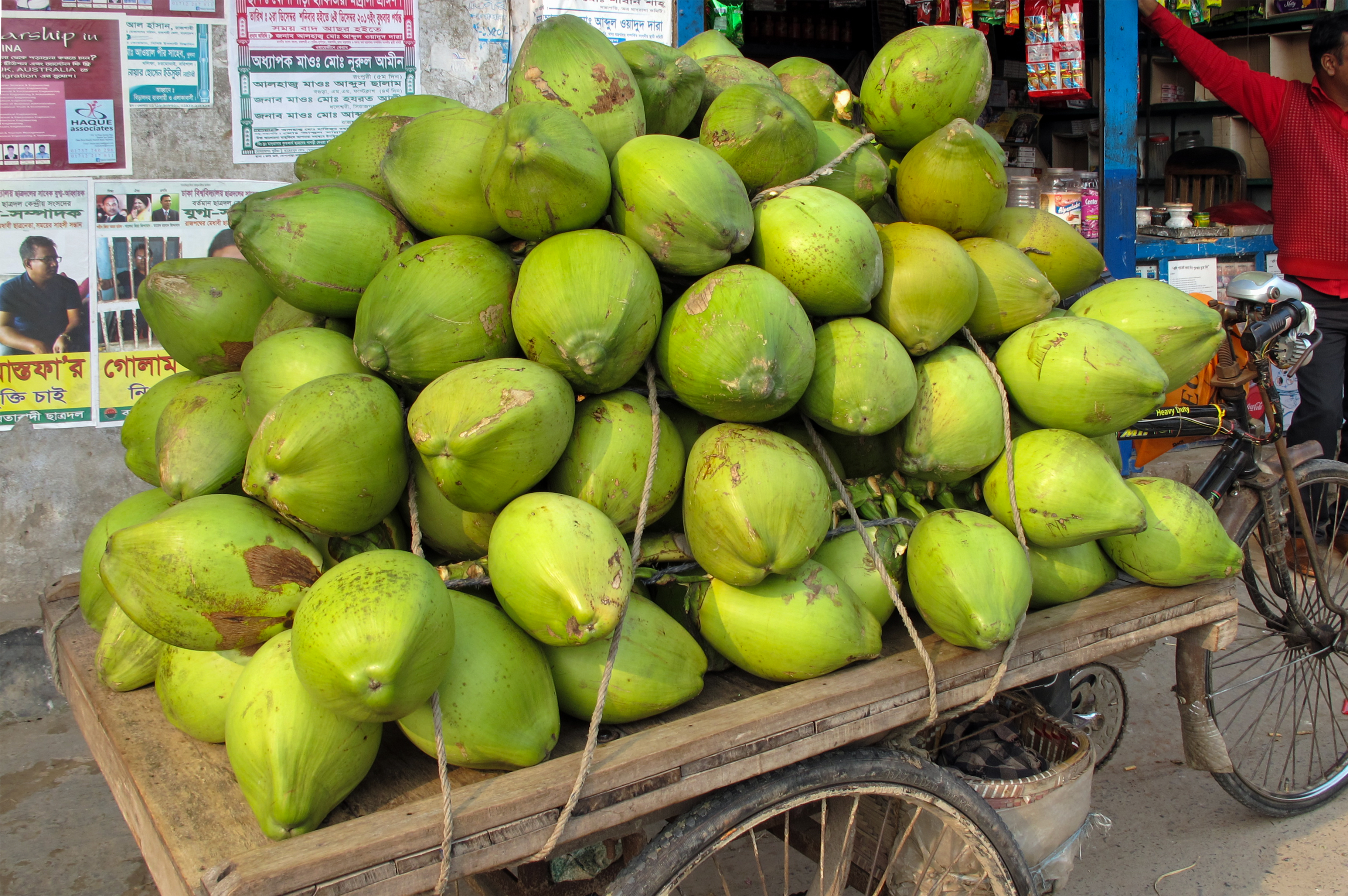 Coconuts, Puthia, Rajshahi